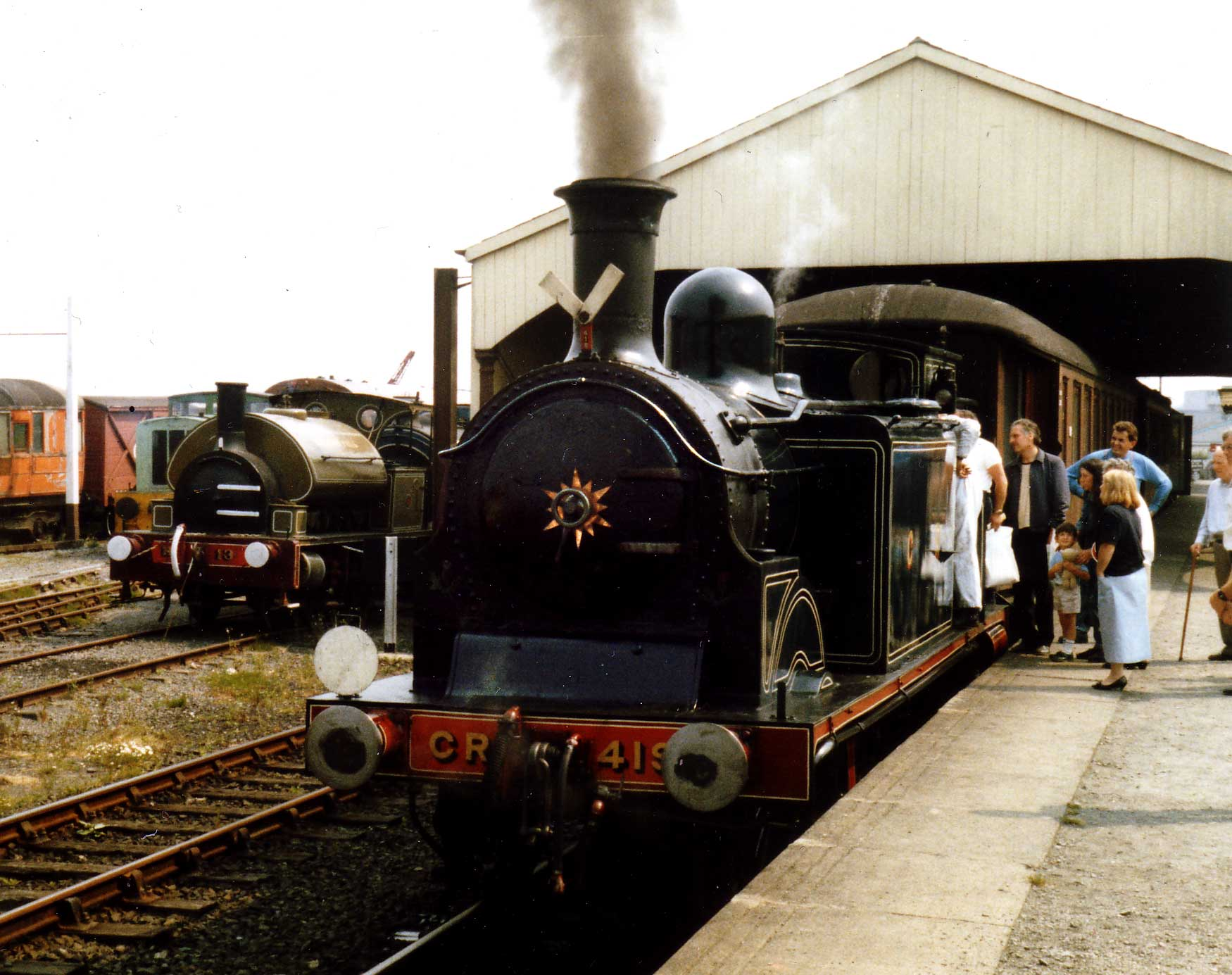 Caledonian Railway engine 419 at the Bo'ness and Kinneil Railway